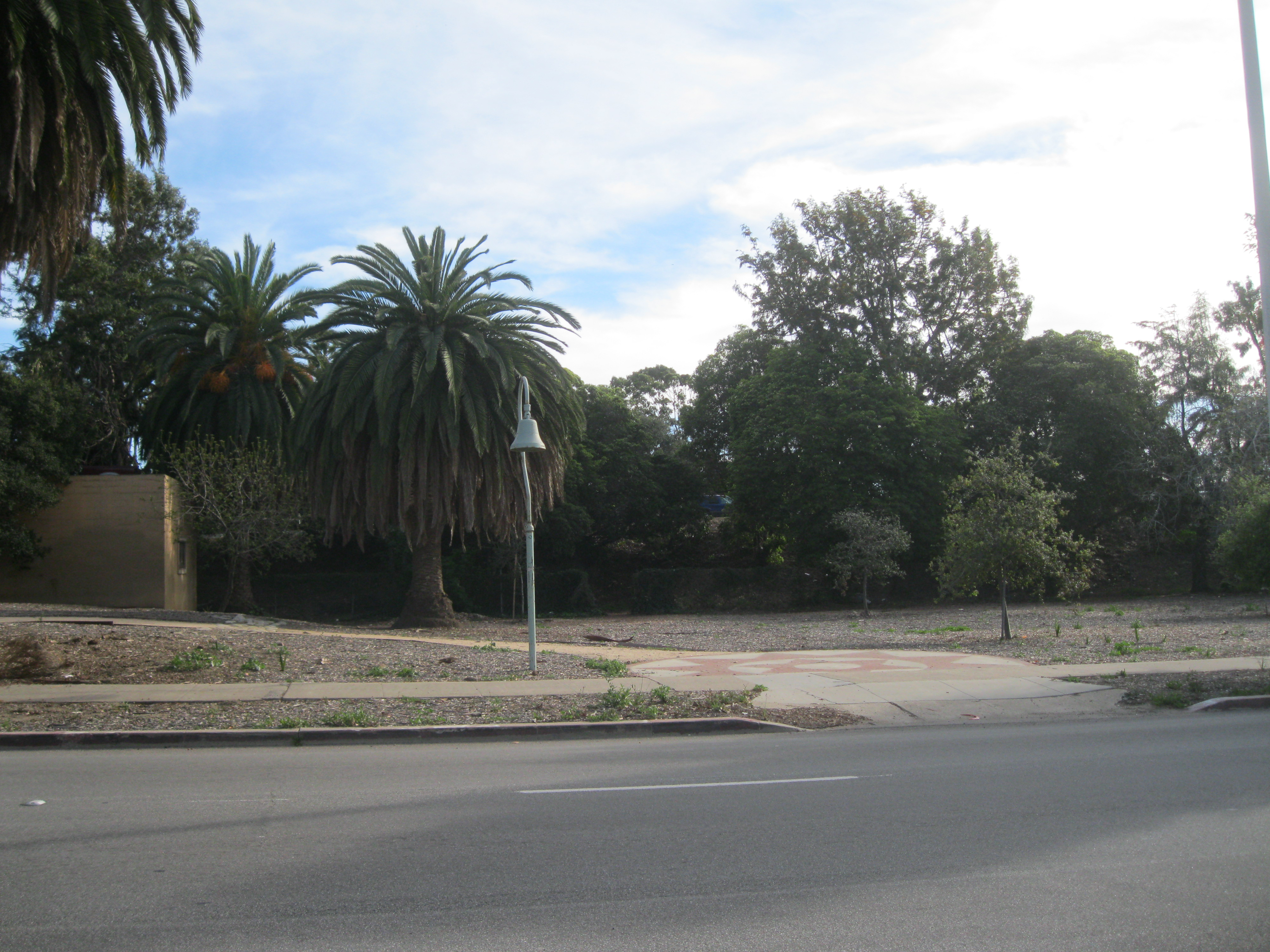 The San Miguel Chapel Site is a public park in Ventura, California. It is the site of the first Spanish colonial structure at Mission San Buenaventura, used during the construction of the main mission building. The archaeological site is listed on the National Register of Historic Places in Ventura County, California.